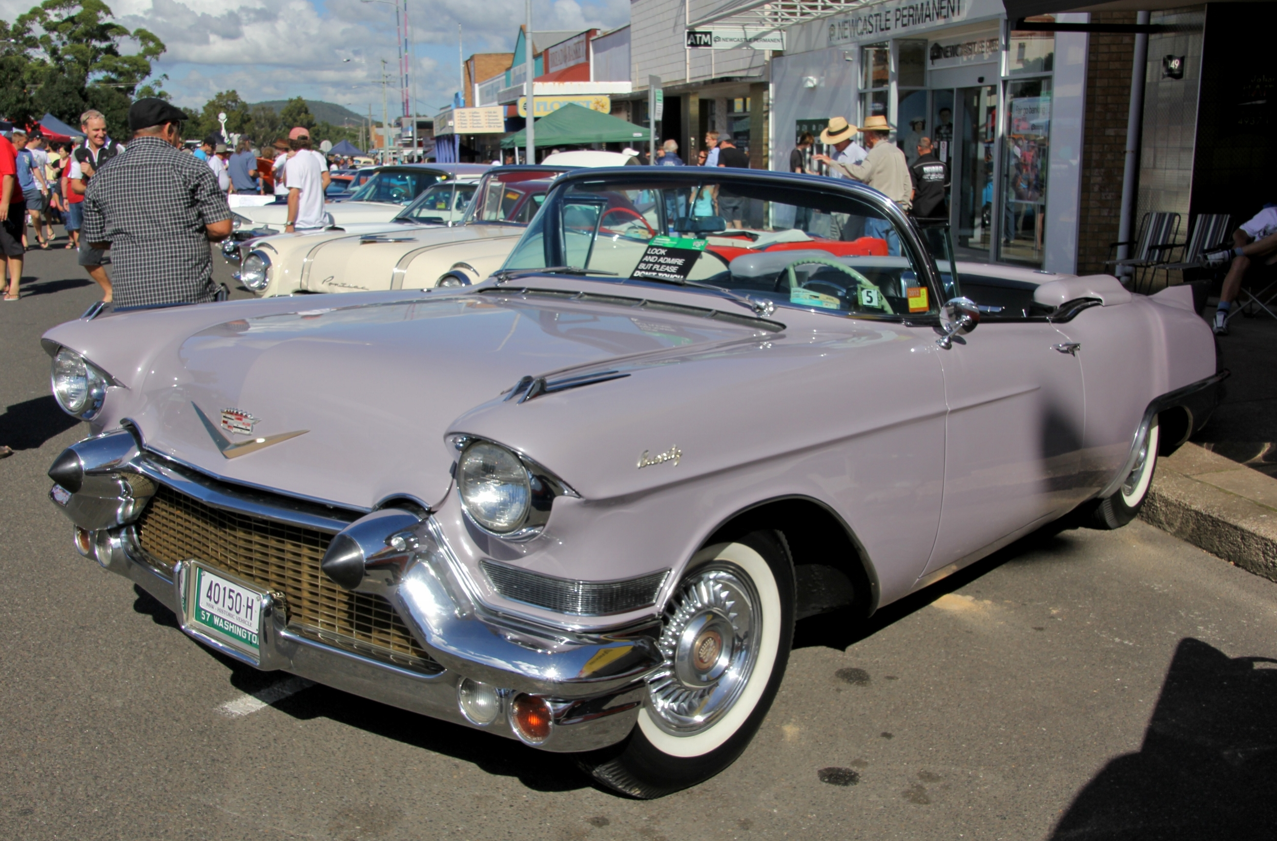 1957 Cadillac Eldorado Biarritz convertible. Taken at the 2012 Kurri Kurri Nostalgia Festival, held in Kurri Kurri, New South Wales.